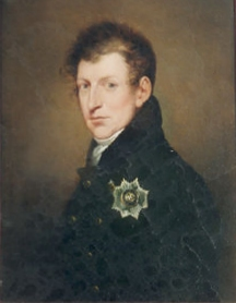 Ernst Christian August von Gersdorff, minister of state of Saxe-Weimar-Eisenach